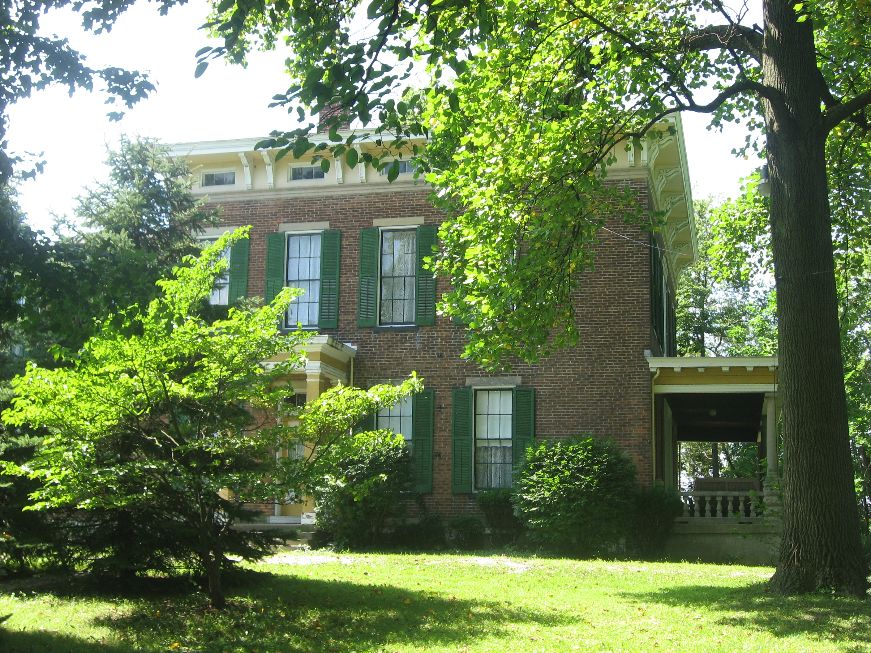 Northern side of the Hanna-Ochler-Elder House, located at 3801 Madison Avenue in Indianapolis, Indiana, United States. Built in 1859 and since converted into a bed and breakfast, it is listed on the National Register of Historic Places.